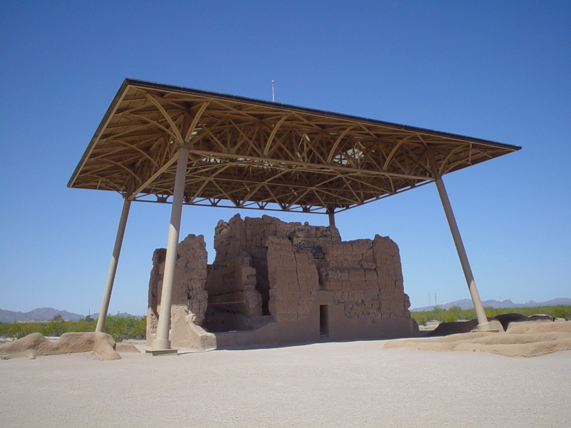 Casa Grande ruins under shelter; shelter was built in the 1930s. Image Taken by John Dodds in March of 2004.